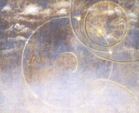 Detail of Image:Vädersoltavlan cropped.JPG